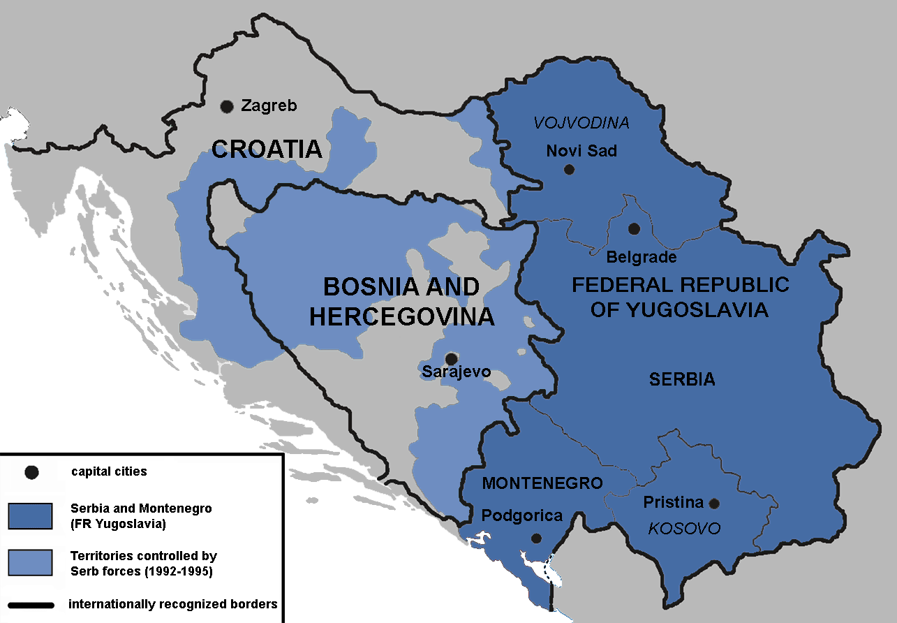 Territories of the Republic of Bosnia and Herzegovina and the Republic of Croatia controlled by the Serb forces, after the Operation Corridor (July 1992) in the Yugoslav Wars. According to the prosecution of War Crimes Tribunal, "Serbian forces" included Yugoslav Army, Serb Territorial Defense of Bosnia and Herzegovina and Croatia, Republic of Srpska Krajina Army, Army of the Republika Srpska, territorial defense of Serbia and Montenegro, Police of Serbia and Police of Republika Srpska, including national security, special police forces of Krajina known as "Martićevci", as well as all Serbian paramilitary forces and volunteer units.[1] Croatia declared independence on June 25, 1991. It was internationally recognized on 15 January 1992 by the United Nations. Bosnia and Herzegovina declared independence on March 5 1992. It was internationally recognized on 22 May 1992 by the United Nations. Serbia and Montenegro proclaimed FR Yugoslavia as a sole successor state of SFR Yugoslavia, on April 27 1992. It remained unrecognized during the conflict (1991-1995).